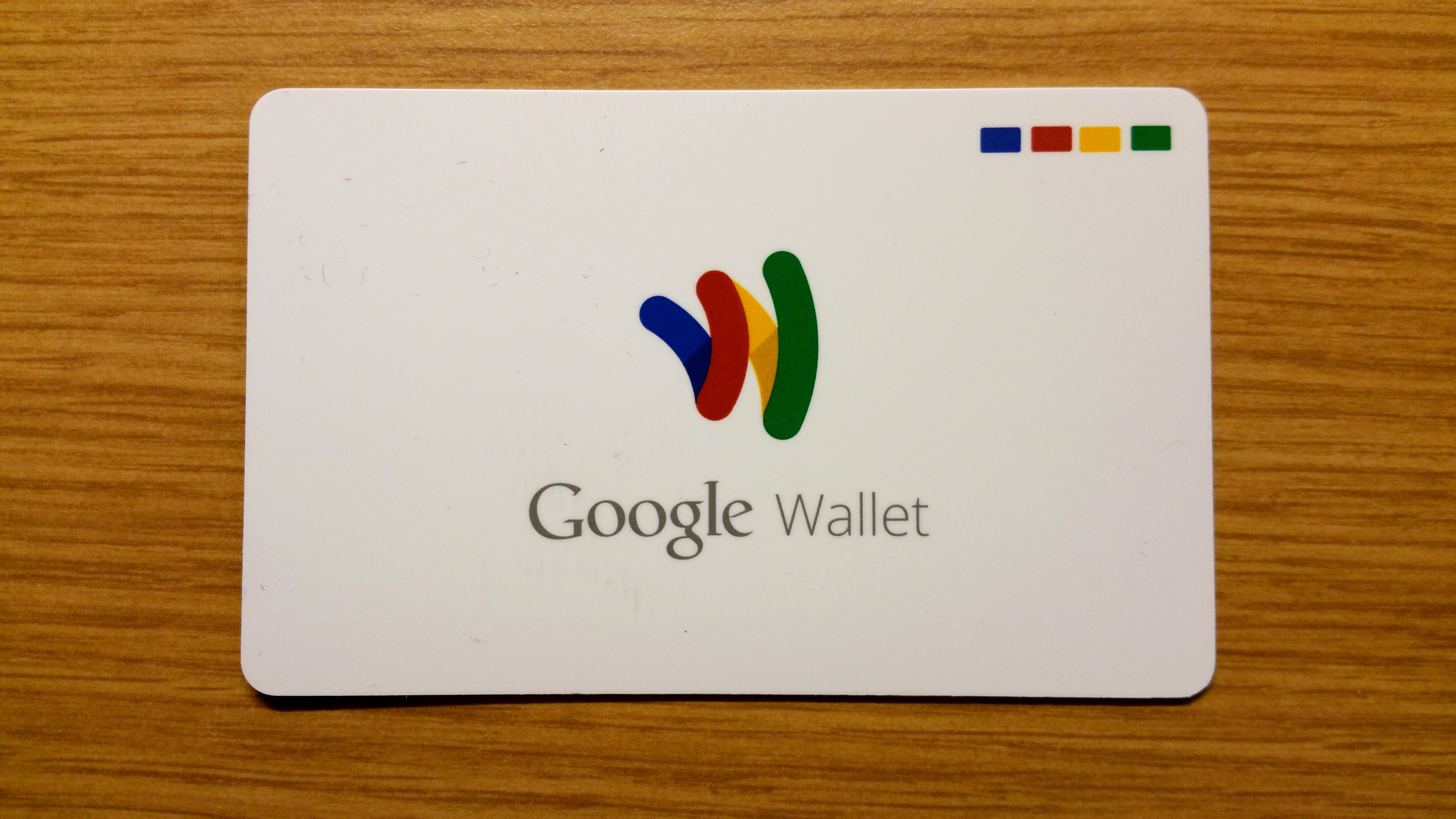 The Google Wallet card. All the personal information is on the other side.